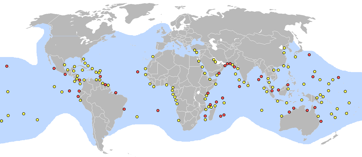 Nesting location of Green sea Turtle : red dot = major nesting locations, yellow dot=minor nesting locations